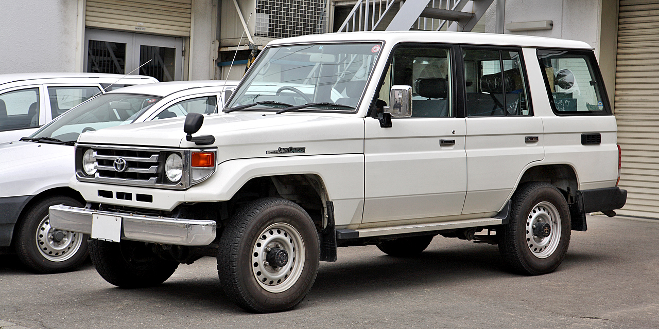 Toyota Land Cruiser 70 Semi-long 4.2 LX ( HZJ76V )